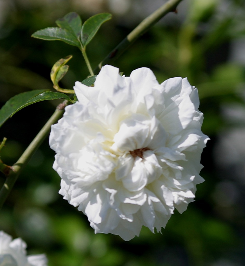 an old hybrid of R. banksiae and R. laevigata, much used in Florida as an understock.